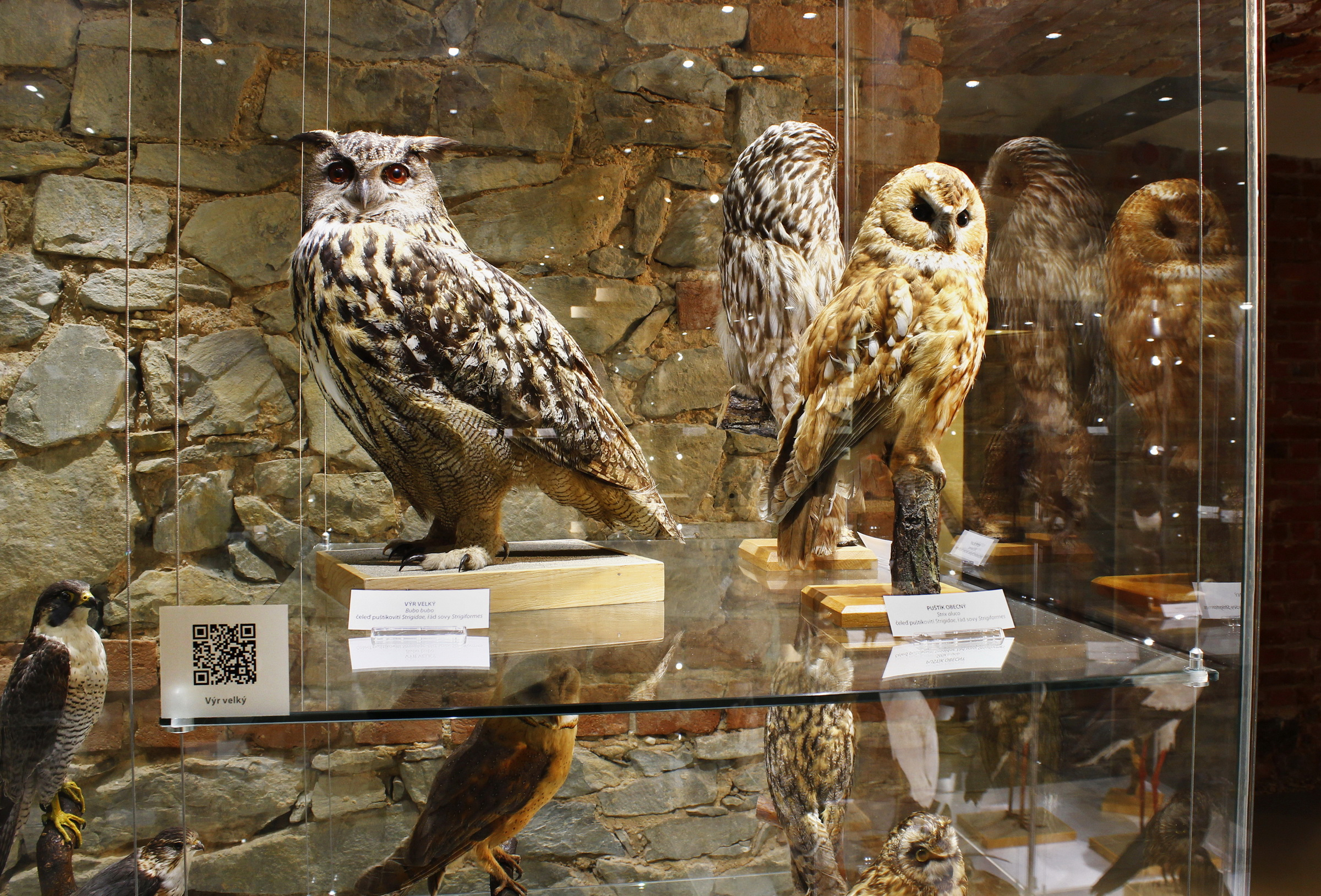 QRpedia codes in Silesian Museum Opava for a Eurasian Eagle-Owl